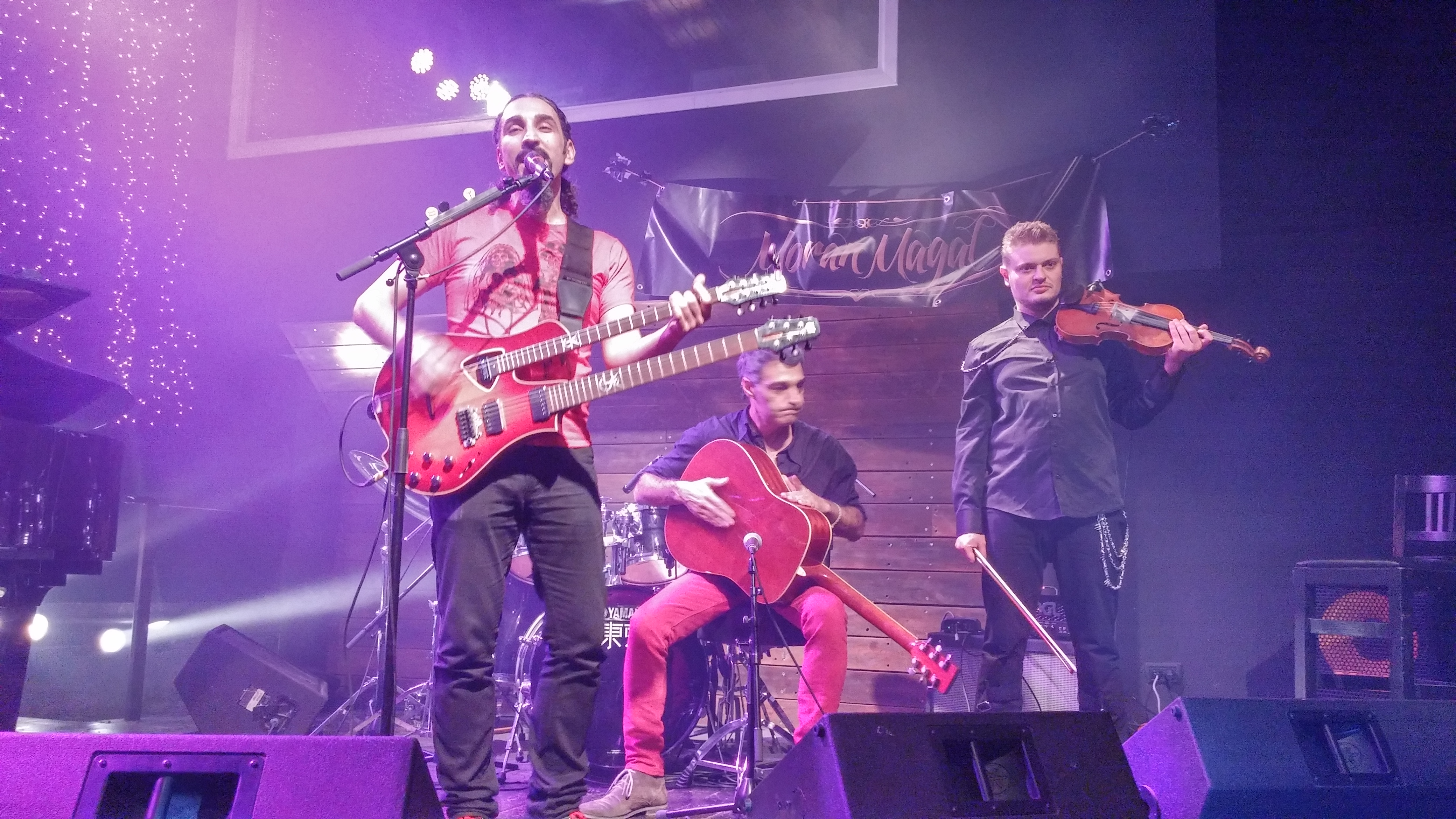 Yossi Sassi, Doron Raphaeli and Alexey Kochetkov